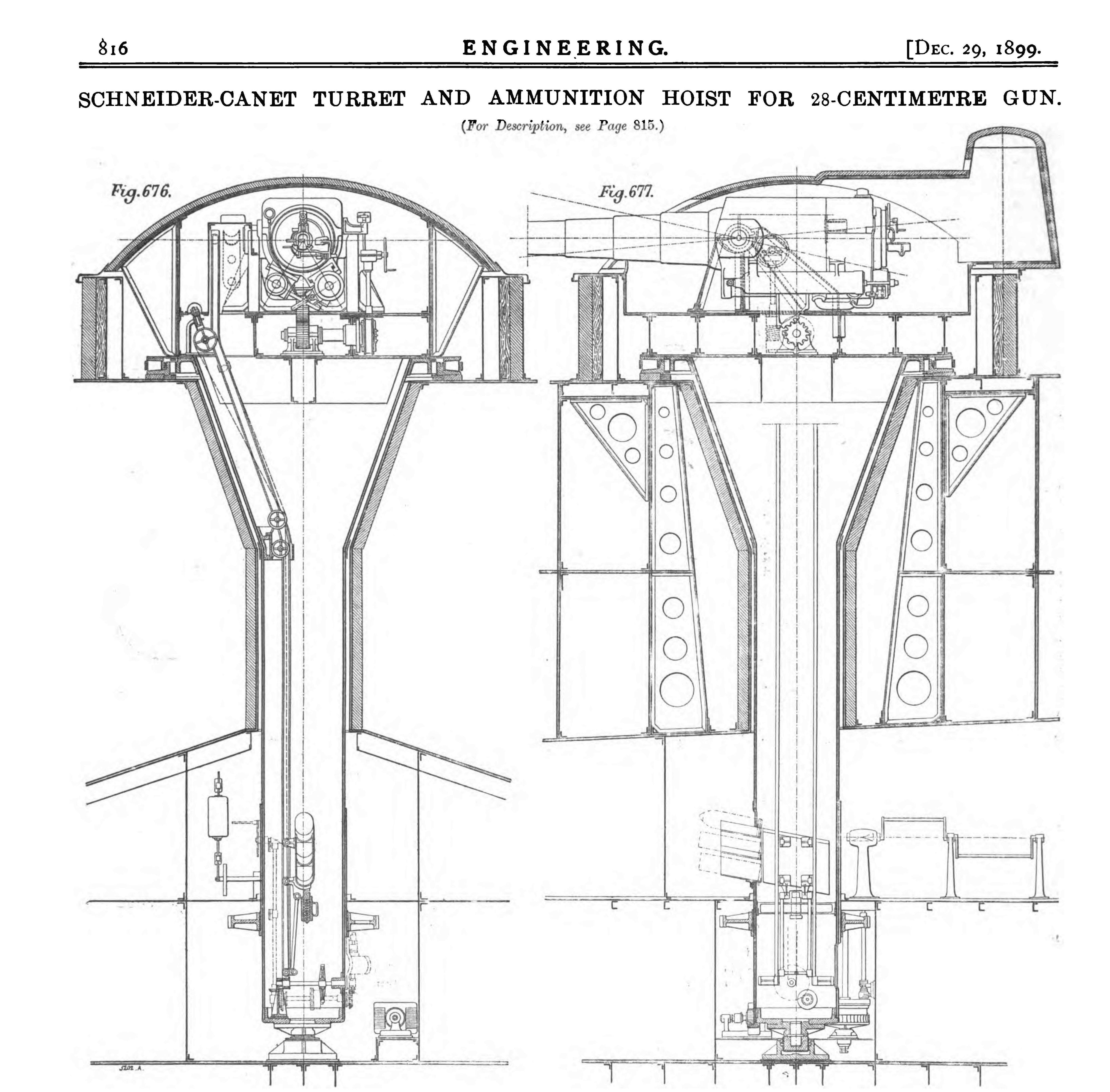 Schneider-Canet 28 cm (11 inch) single barbette / turret of a Victorian era warship, most likely an armoured cruiser, like the Spanish "Vizcaya"